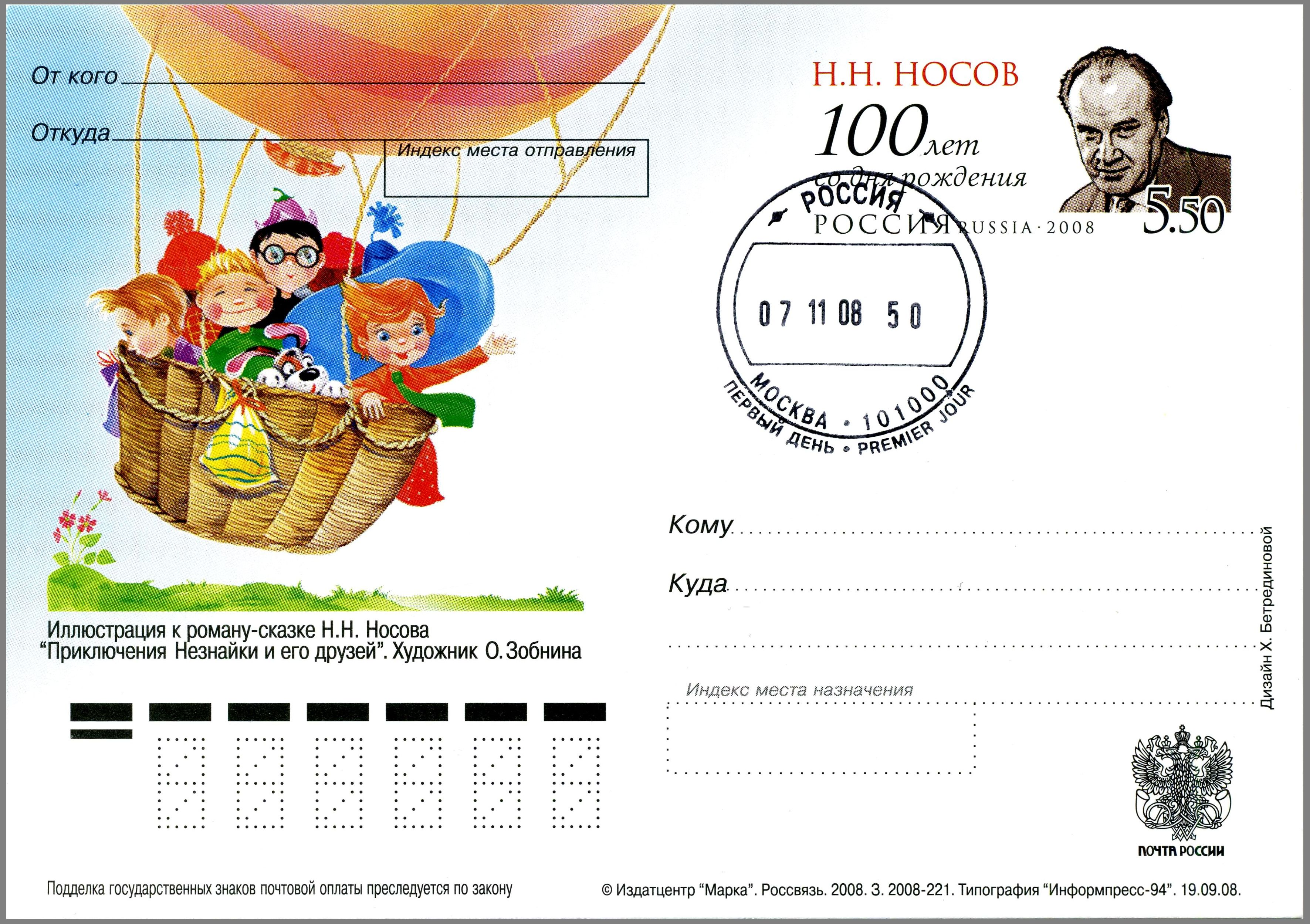 100th birth anniversary of Nikolay Nosov, a Soviet children's literature writer. The postal card with an imprinted commemorative stamp, Russia, 2008. The commemorative stamp (5.50 rubles): the portrait of Nikolay Nosov. The illustration for N. Nosov's fairy tale novell The Adventures of Dunno and His Friends by O. Zobnina. First day cancellation, Moscow, 07 November 2008.